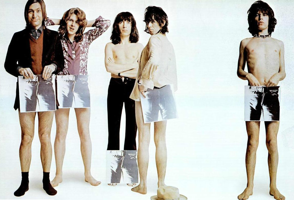 Photo of the Rolling Stones from a trade ad to promote their "Sticky Fingers" album.